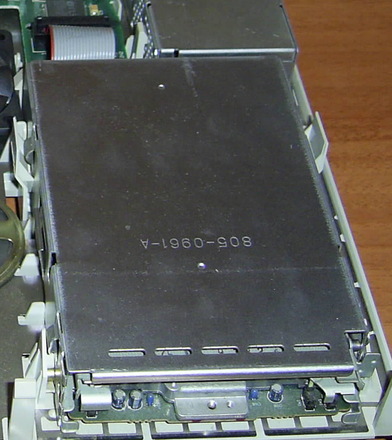 Internal SuperDrive floppy drive on a Macintosh LC II